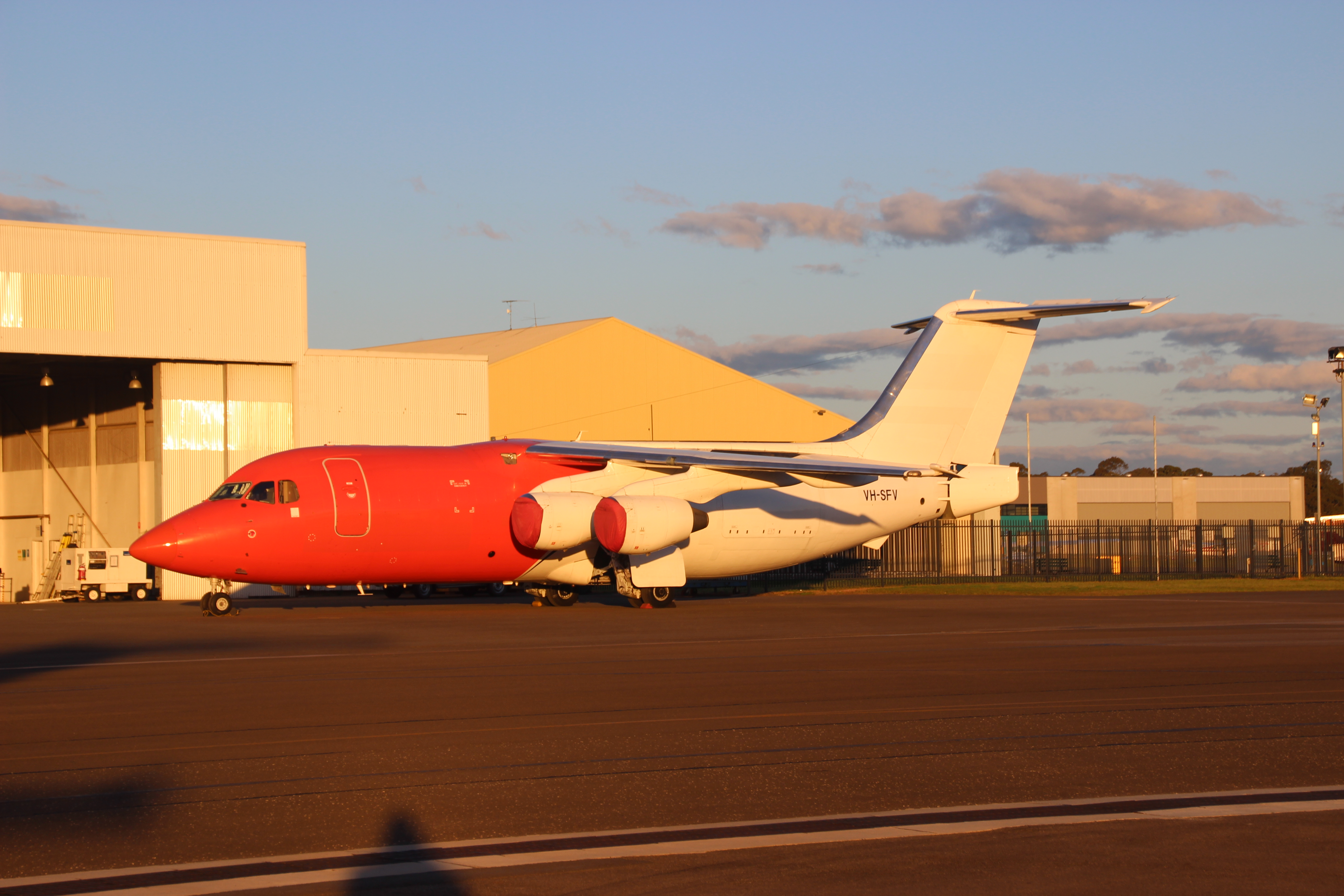 A Pionair British Aerospace 146-200QT in TNT colours, a few days before its first flight on behalf of Virgin Australia. Digital image of VH-SFV taken by YSSYguy at Bankstown Airport in Sydney, Australia on 16 September 2016 and uploaded for use in the Virgin Australia article. YSSYguy (talk) 05:33, 18 November 2016 (UTC)